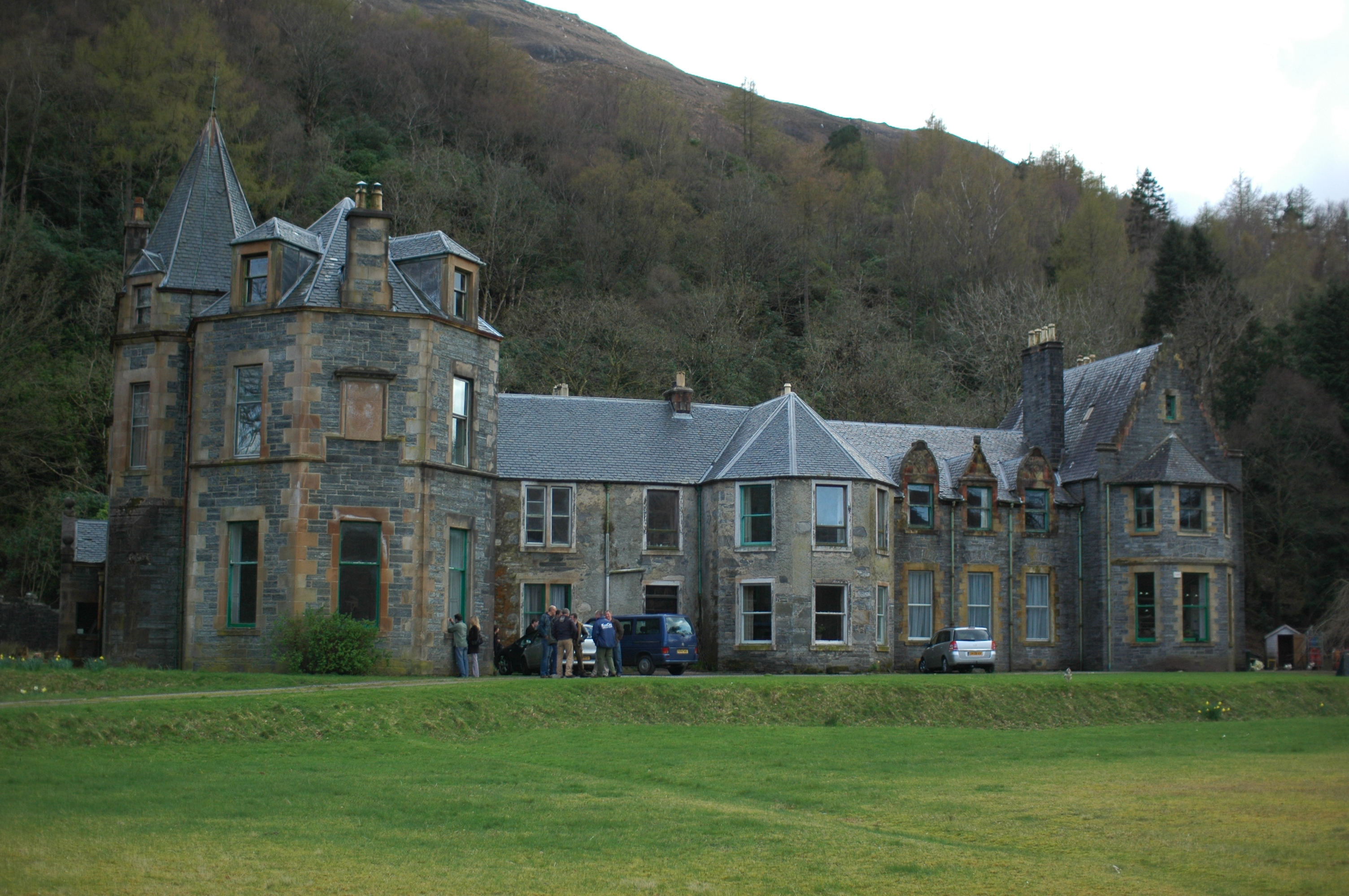 Inverailort House, near Lochailort, Scotland. During WW2 this was used by the British Army as the Special Training Centre, where irregular forces such as Commandos and SOE were trained by W.E. Fairbairn.